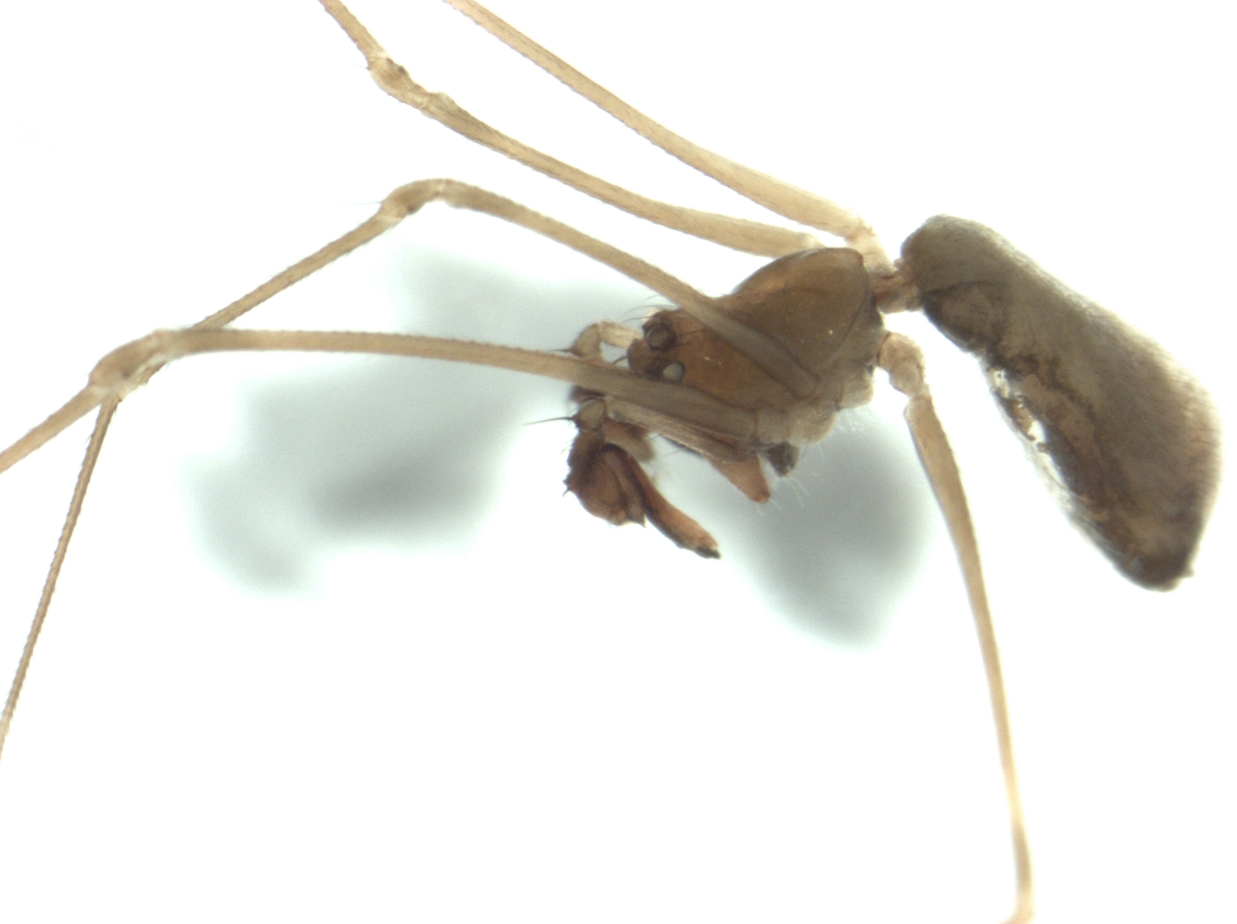 adult male Pahoroides sp., probably P. courti, from Maungatautari, New Zealand WO